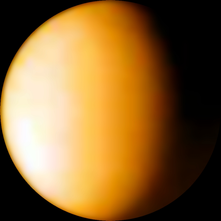 Image of Saturn's moon Titan taken by Voyager 1 in 1980.